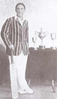 this photo bears the picture of Jack Anderson- The Great Antonian Cricketer